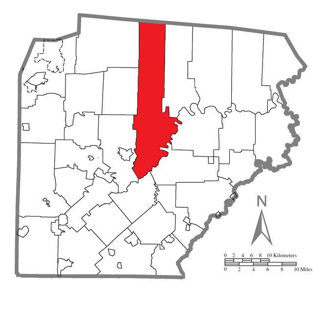 This is a map of what the consolidated municipalities would look like if votes pass in 2020.